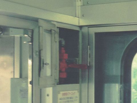 Emagency door open cock